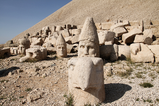 This is a sculpted human head from the stone remains of the massive temple erected by King Antiochus I of Commagene